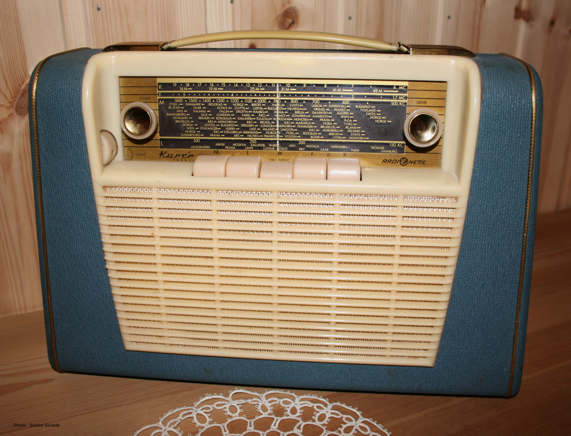 Front side of a Radionette Kurér Transi radio, produced in Norway by "Jan Wessel, Radionette Norsk Radiofabrikk" ("Jan Wessel, Radionette Norwegian Radiofactory") from 1958-1962. The unit cost was 458 NOK in 1958.